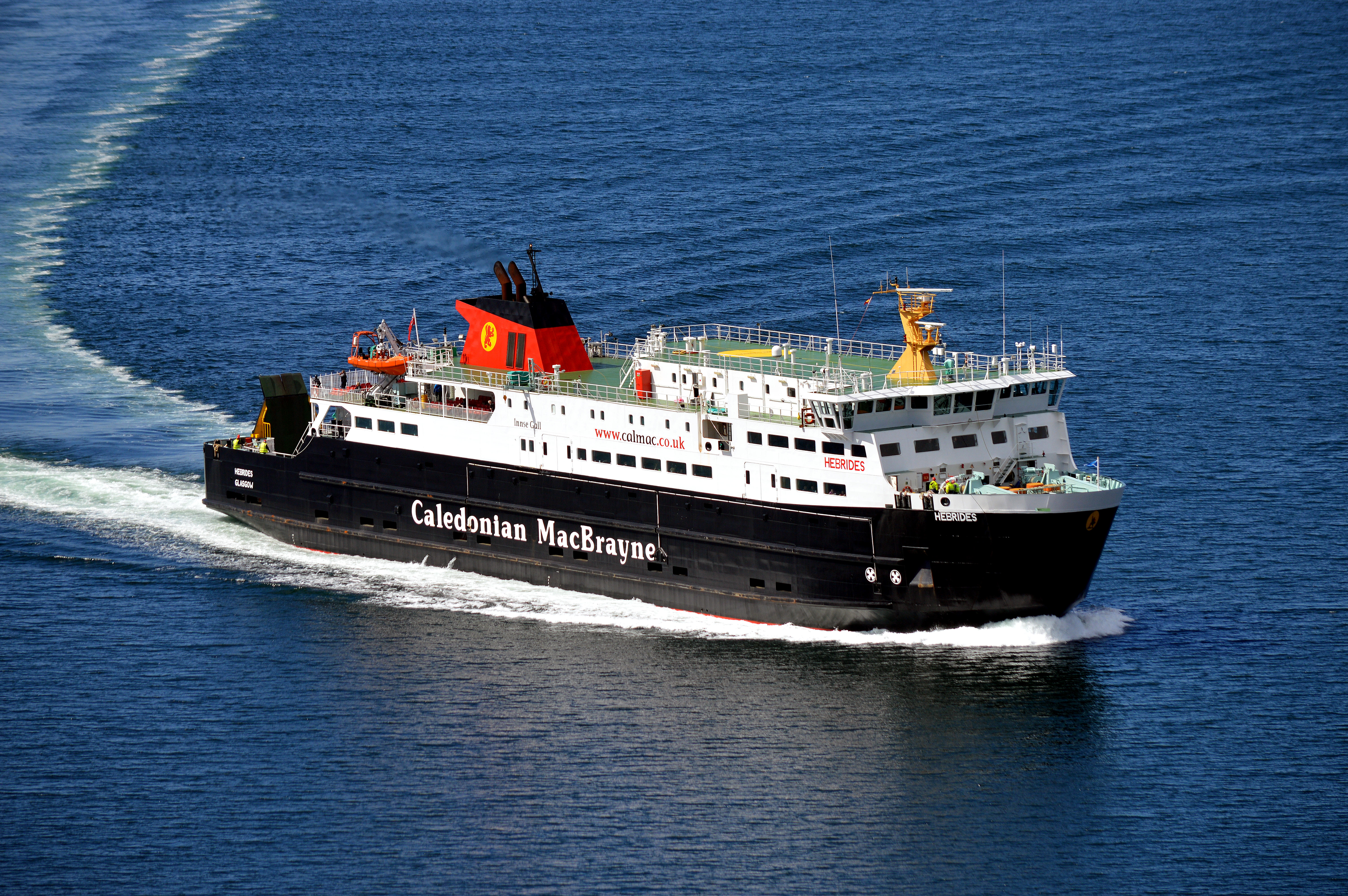 The CalMac flagship approaching Uig, Skye - one of her regular ports of call, in addition to Lochmaddy on North Uist and Tarbert, Harris.